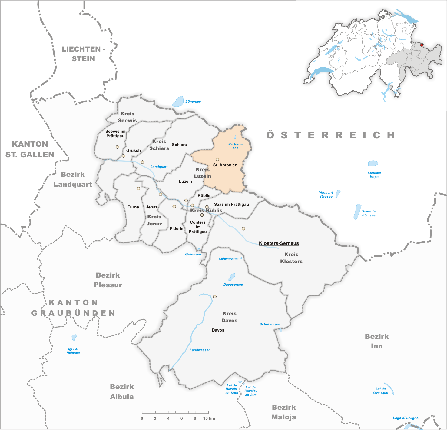 Municipality St. Antönien